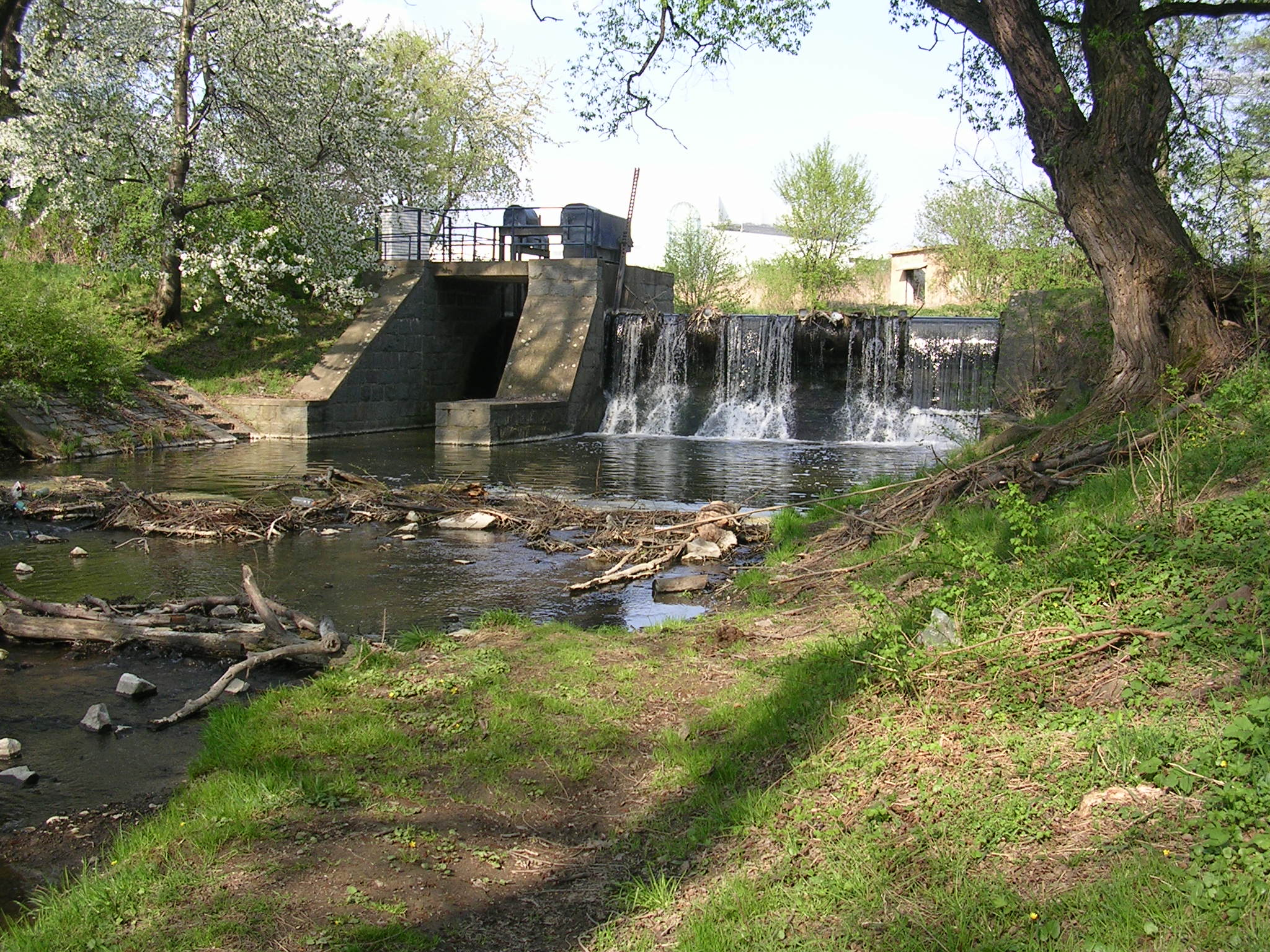 Záběhlice and Hostivař, Prague, the Czech Republic. - Google Maps - Google Earth